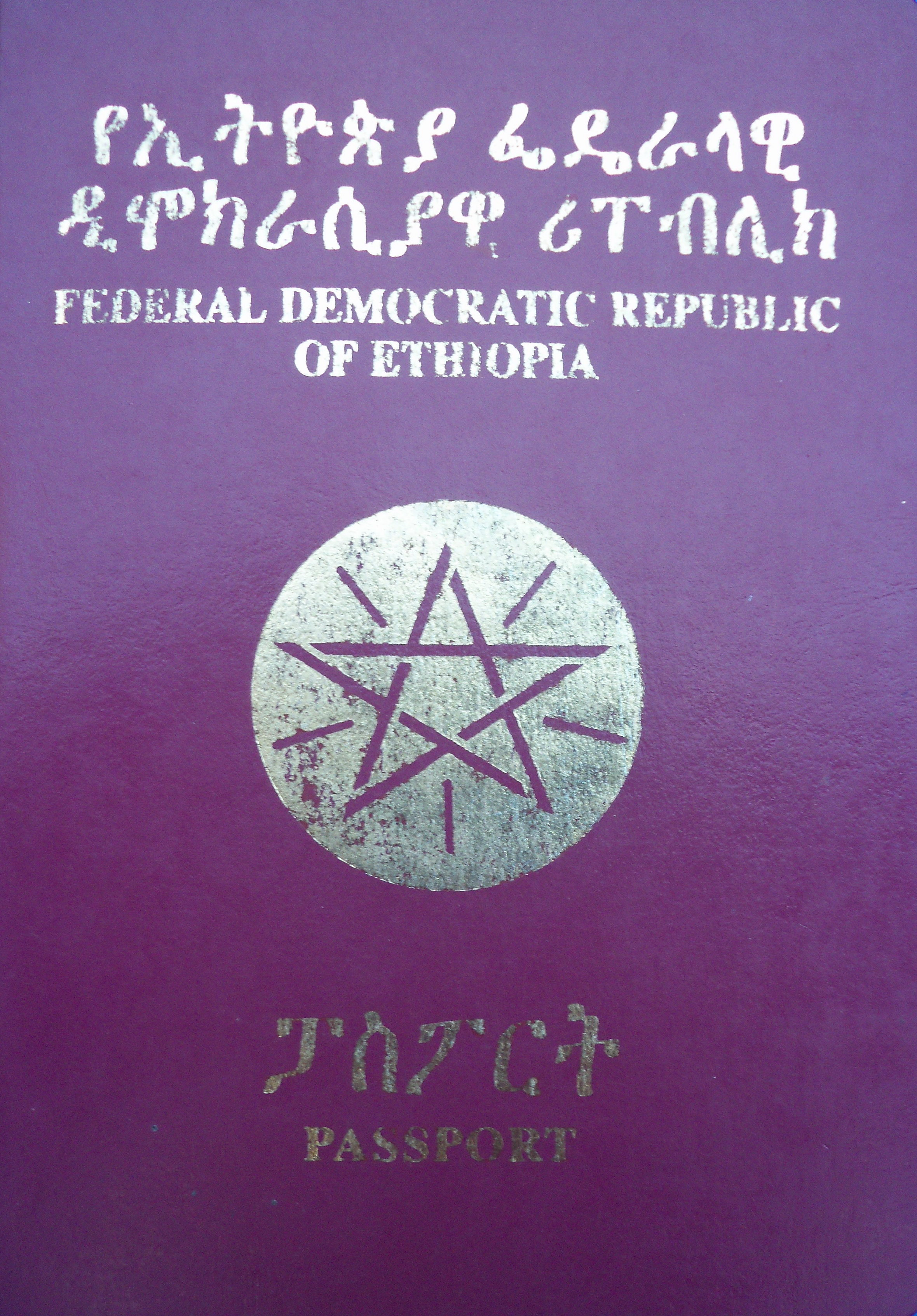 Image of a current Ethiopian passport.